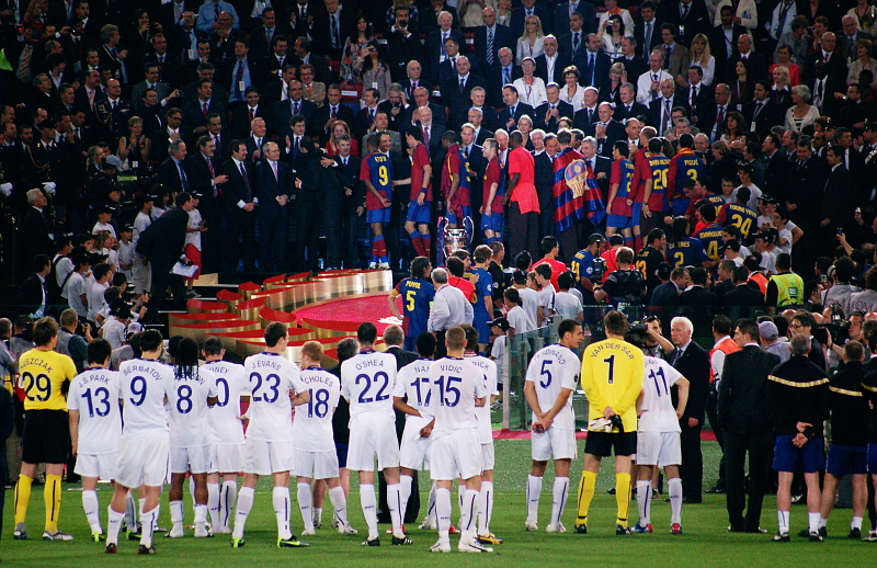 Manchester United players look on as the Barcelona team collect their medals at the end of the 2009 UEFA Champions League Final